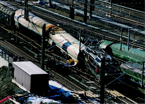 Area of collision. Picture from the official accident investigation report.